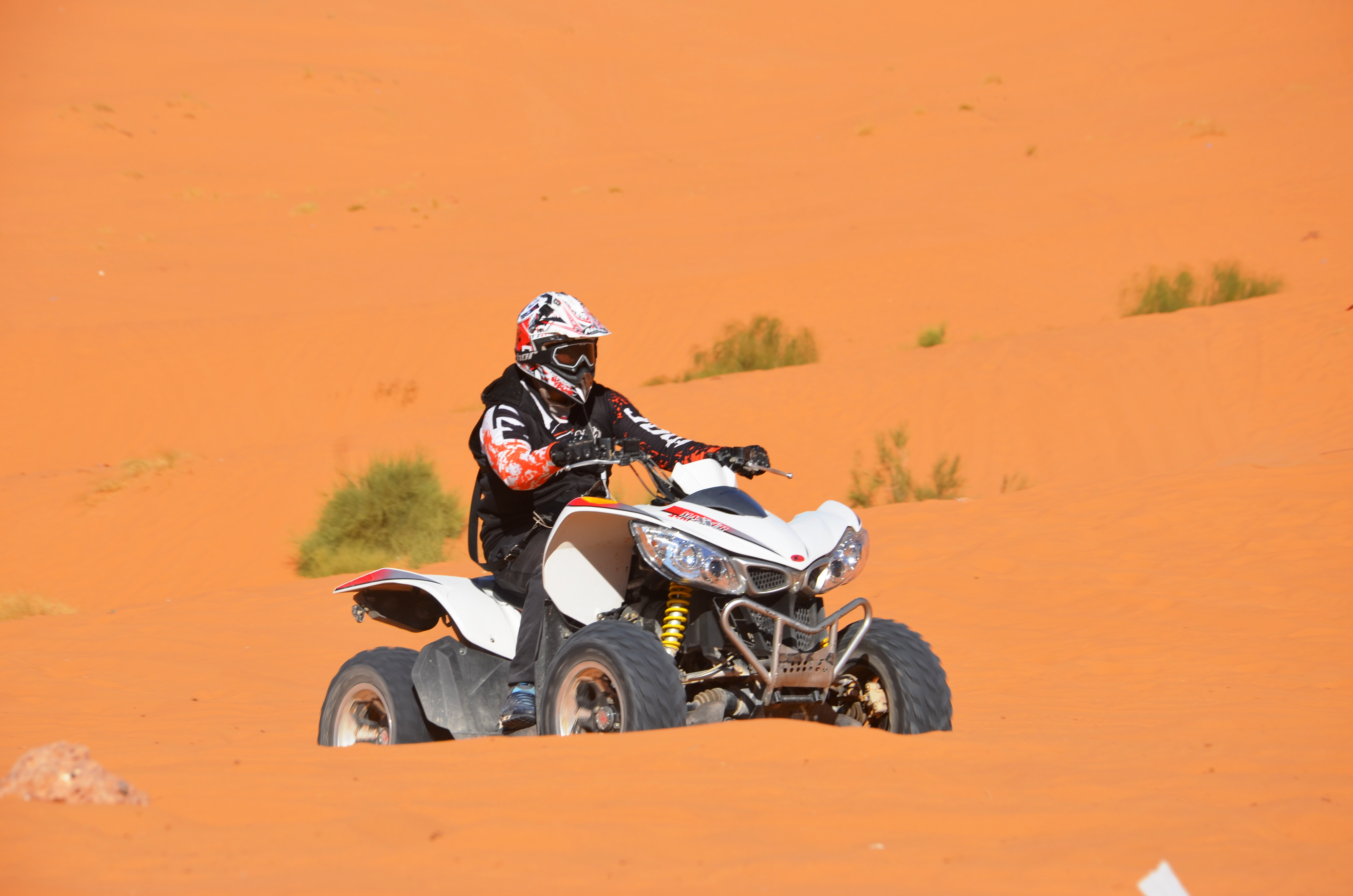 This is an image with the theme "Africa on the Move or Transport" from: Algeria